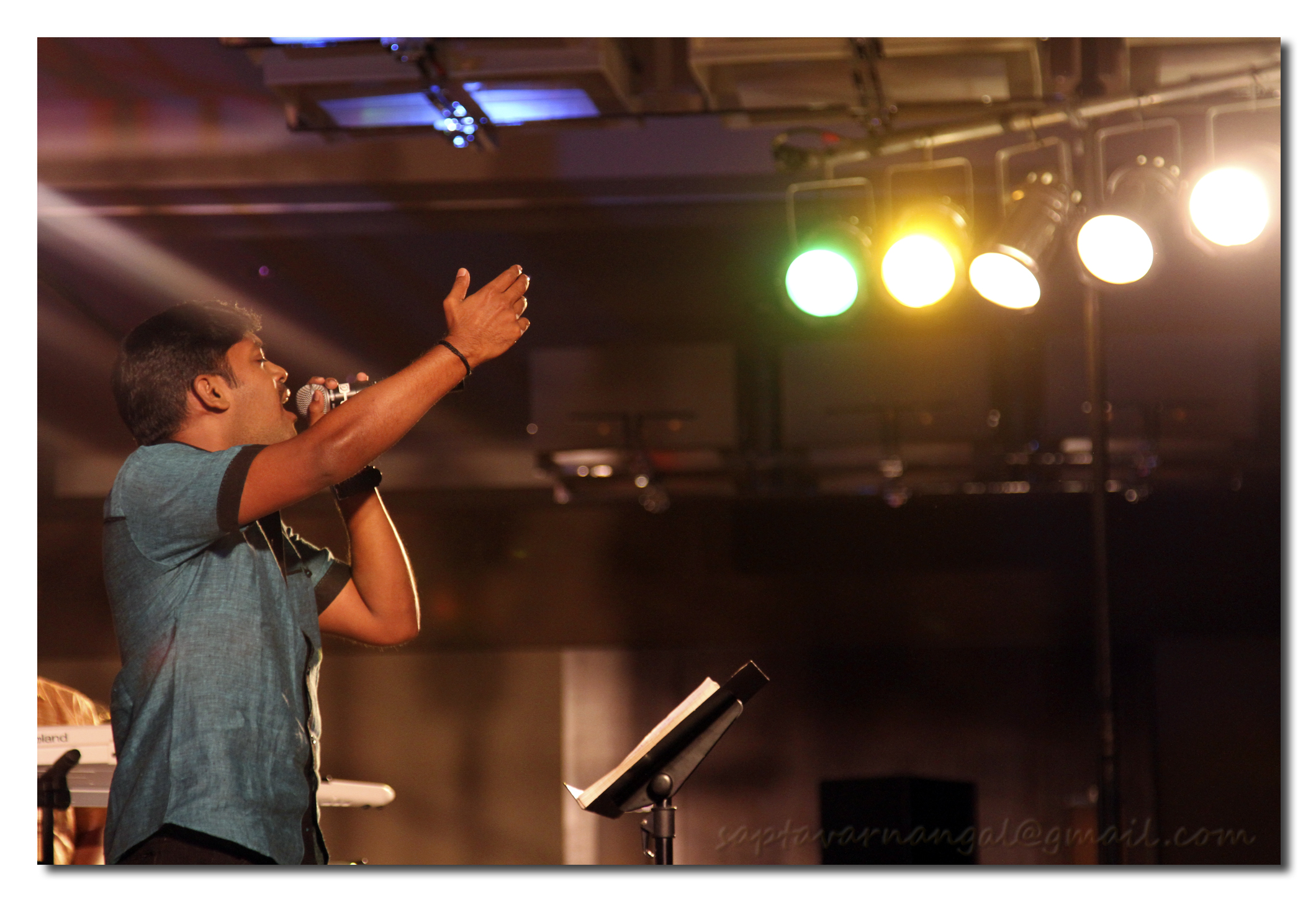 Famous Malayalam movie playback singer